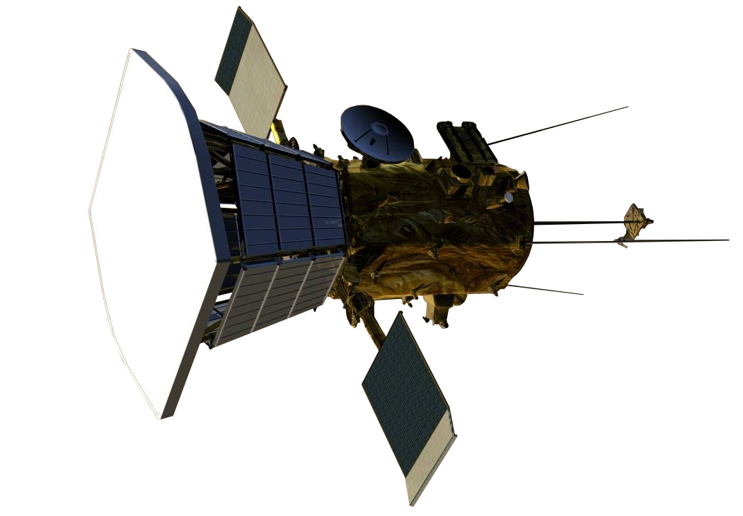 Transparent background image of the Parker Solar Probe spacecraft, for use in Wikipedia infoboxes.